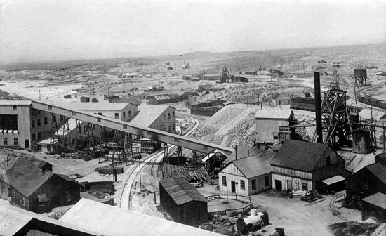 Tonopah Belmont Mine in 1912.